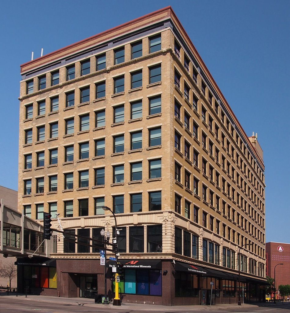 Pence Automobile Company Building, 800 Hennepin Ave, Minneapolis, Minnesota, USA. Viewed from the east, timed to avoid traffic and pedestrians. Corrected for tilt distortion.